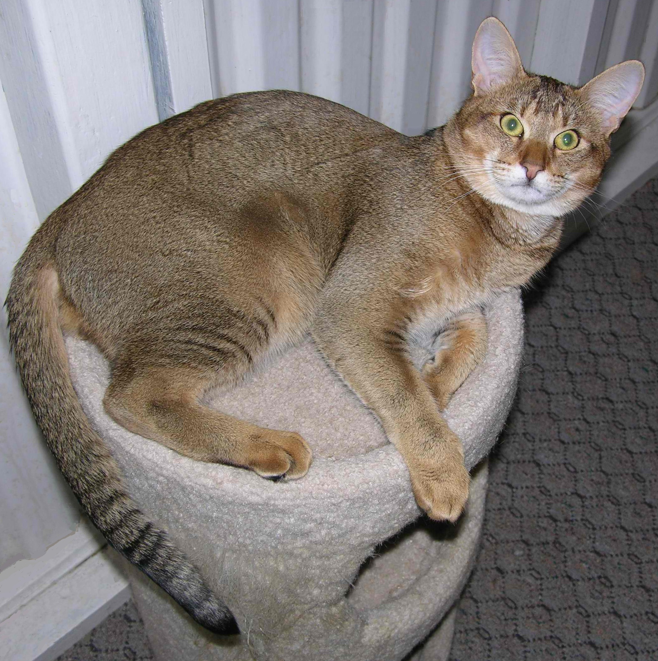 Adult male Chausie, black (brown) ticked tabby